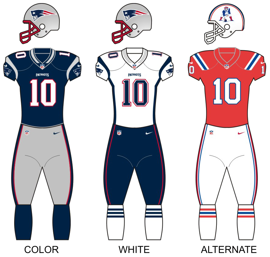 Uniforms currently worn by the NFL team New England Patriots.